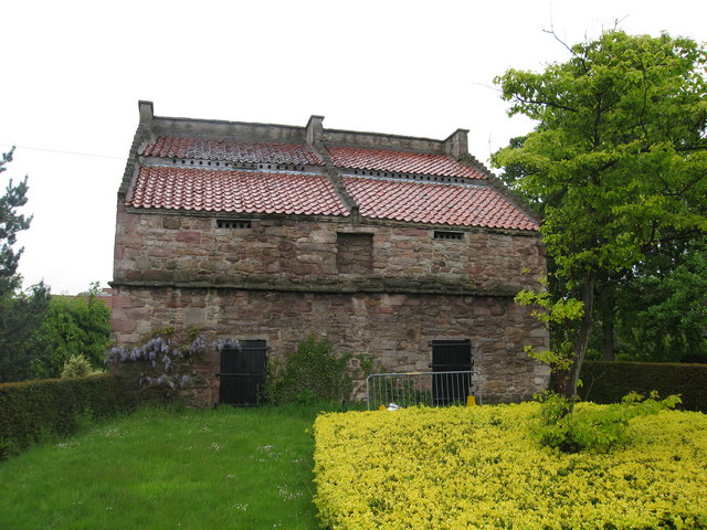 Nether Liberton Doocot. An early 17th century, large two-chambered dovecot, the largest in the Edinburgh area with over 2000 nest holes. Pigeons enter via 36 holes half way down the roof and 5 holes in the S wall of each chamber below the eaves. This dovecot is thought to have been the manorial dovecot of Inch House.